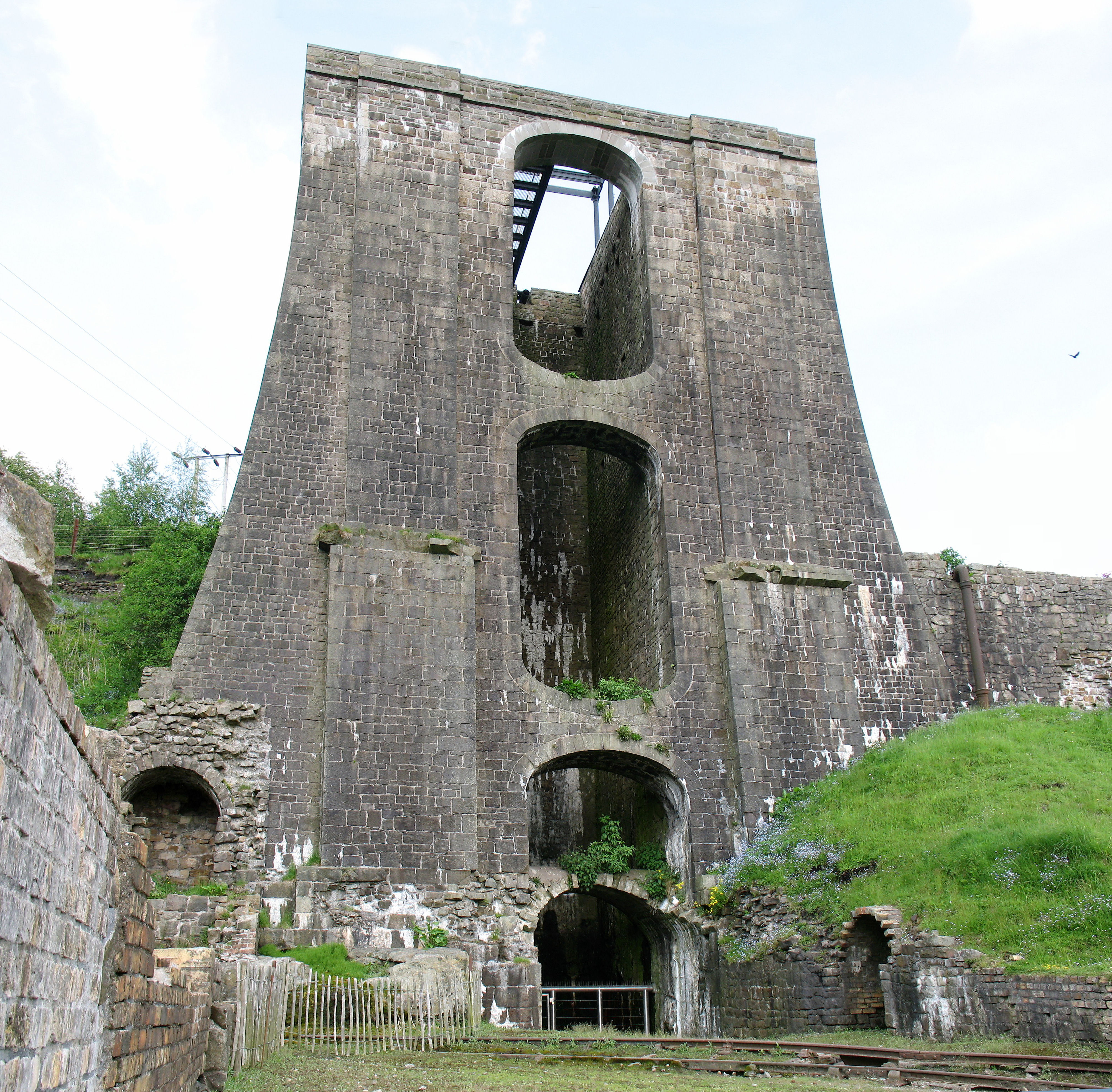 Blaenafon Water Balance Tower, Wales, UK.